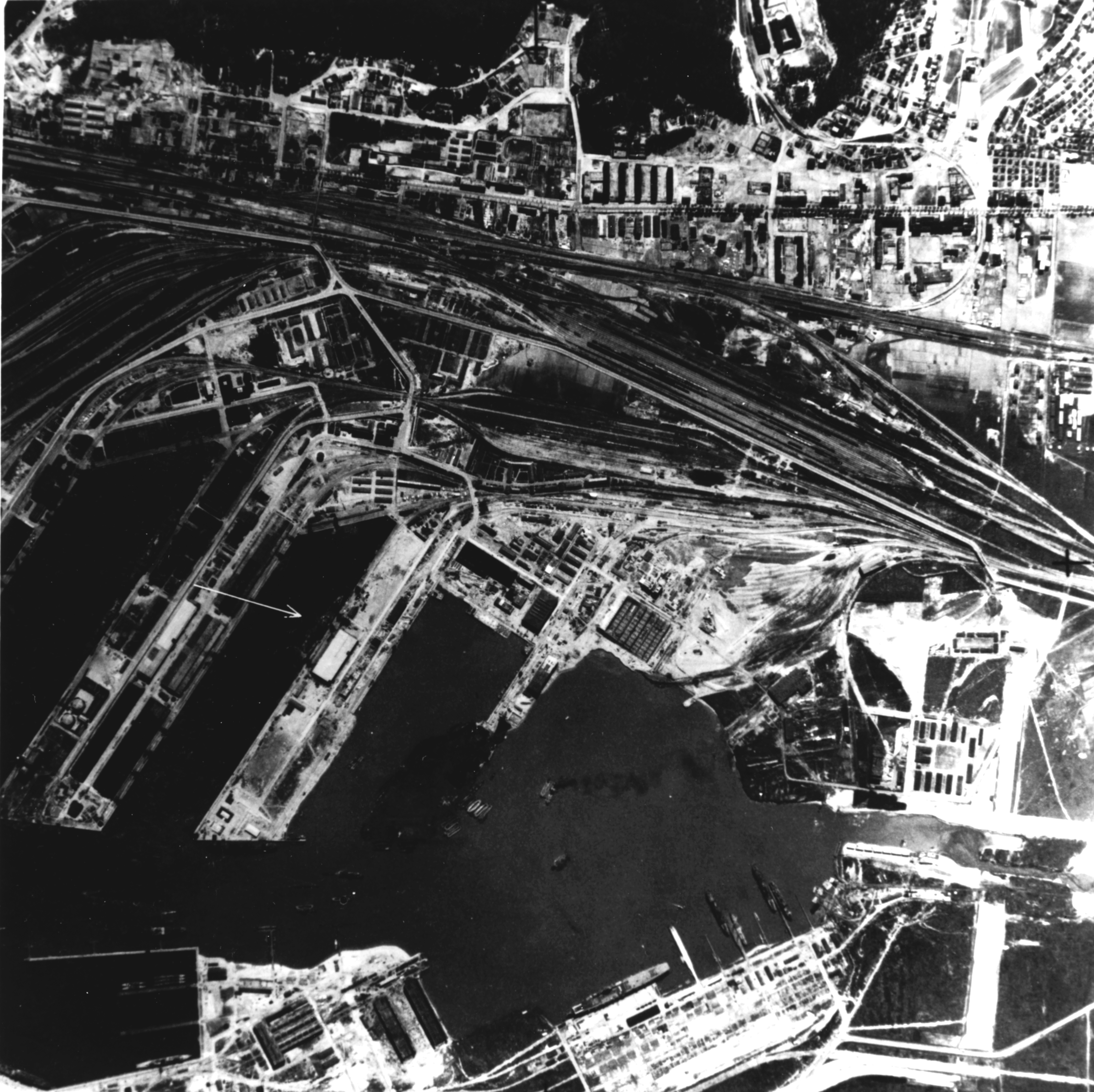 An aerial reconnaissance photo of Gotenhafen, Germany (today Gdynia, Poland), taken by a British Royal Air Force aircraft in June 1942. Visible are the damaged battlship Gneisenau, which was under repair and reconstruction at this time. The incomplete aircraft carrier Graf Zeppelin appears in the lower center of this photograph.